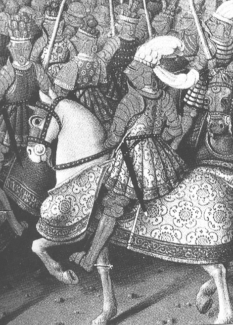 French gendarmes were the successors to the medieval knight, only were regularly embodied and professional soldiers. Superbly equipped and lavishly dressed, they were the ultimate close combat cavalry. Here the gendarmes, from the early 16th century, are all wearing complete bases, a sort of richly embroidered sleeveless jacket, over their armour. (part of picture in illuminated manuscript c. 1510, describing skirmish outside Genoa in 1507)